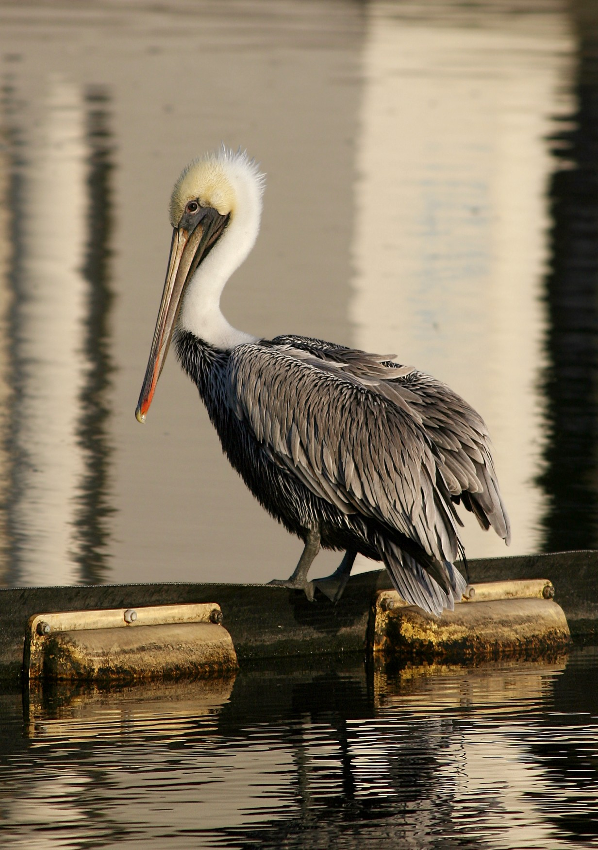 Brown Pelican (Pelecanus occidentalis) taken at Lake Merritt in Oakland, California.